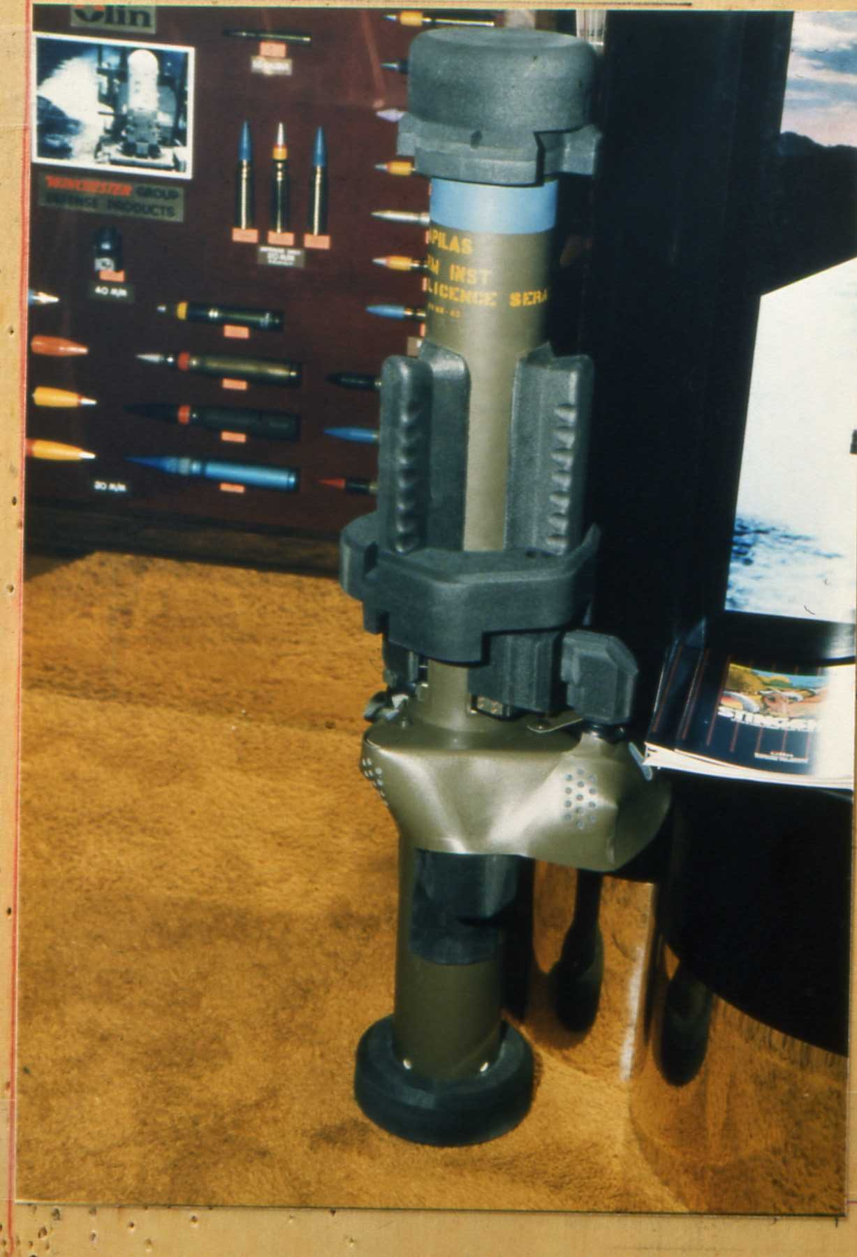 Photo of the French APILAS infantry antitank launcher. Photo taken at the Association of the United States Army 1988 convention at the weapon and display hall.